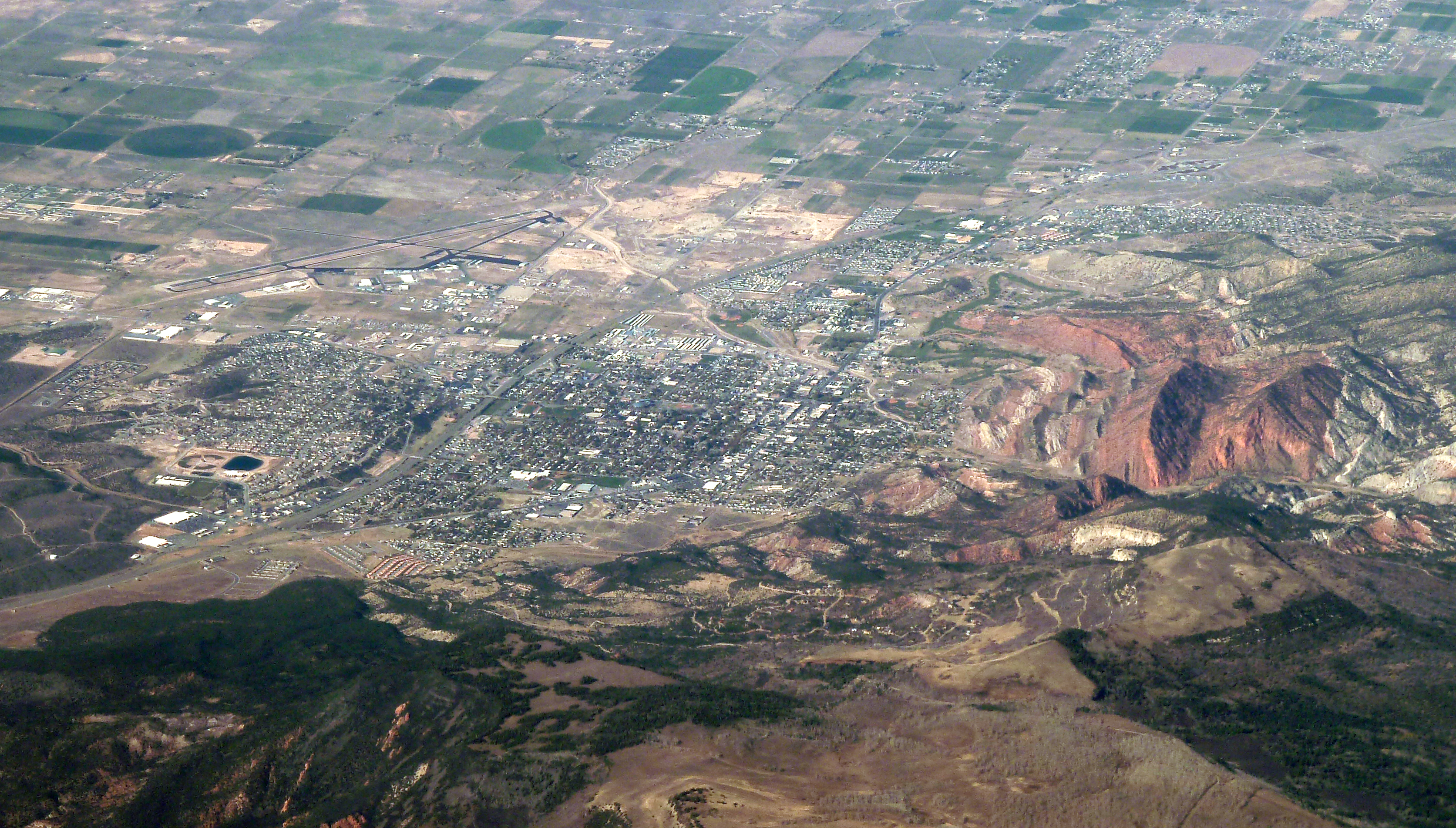 Aerial photograph of Cedar City, Utah, USA.